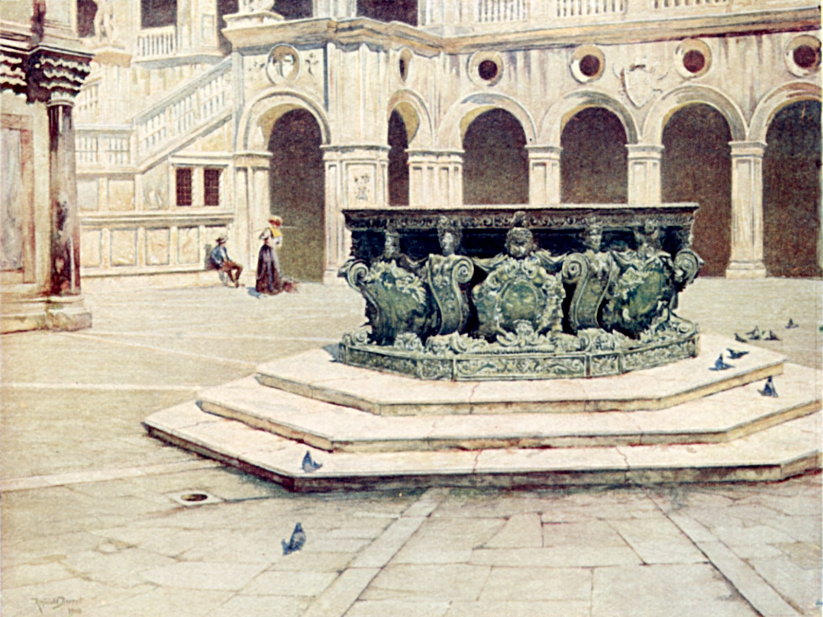 63 Bronze Well-Head by Alberghetti — Courtyard of the Palazzo Ducale in Venice.